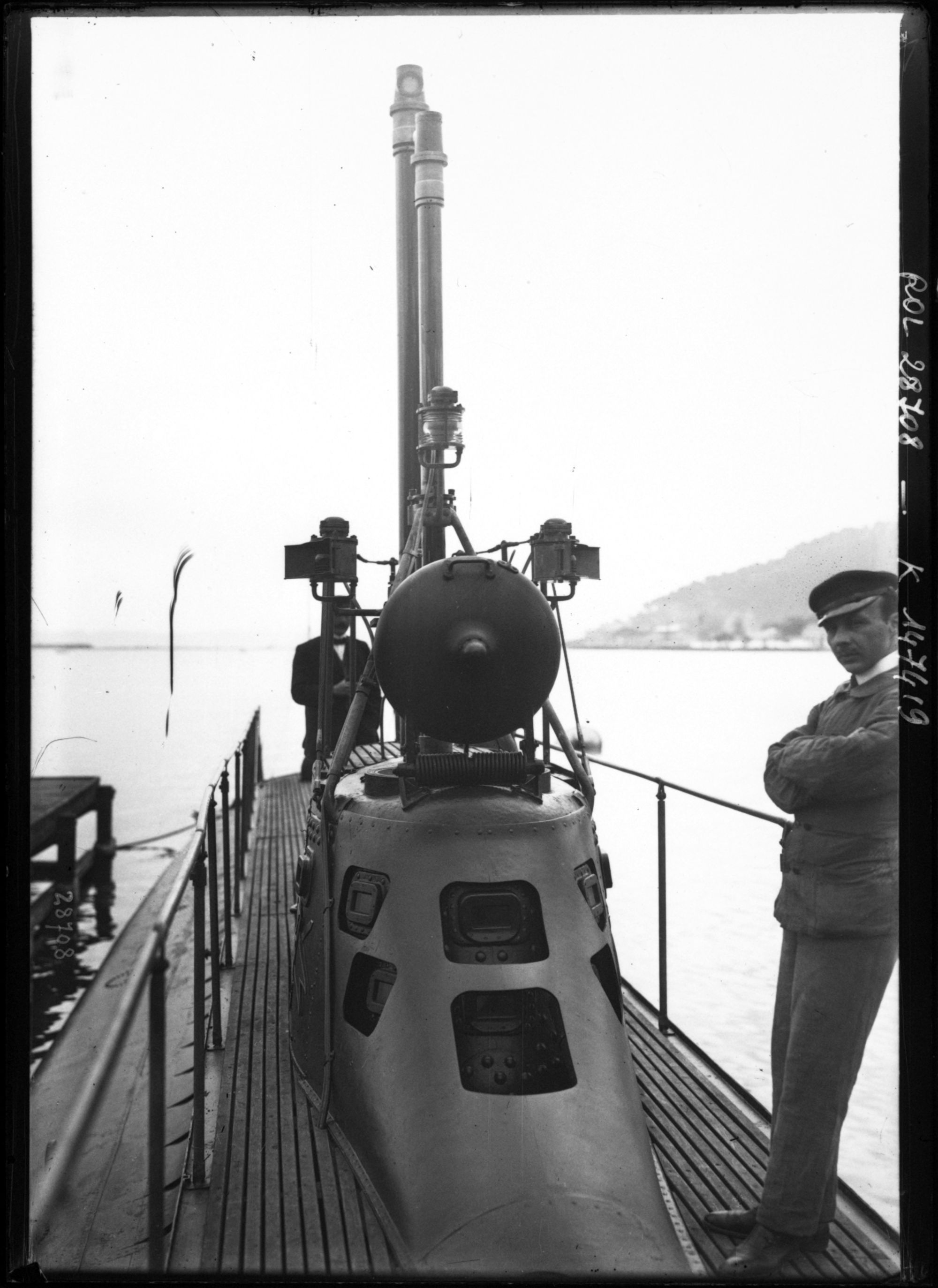 Conning tower of the Xiphias the second submarine of the Greek Navy, at the harbour of Toulon in 1913